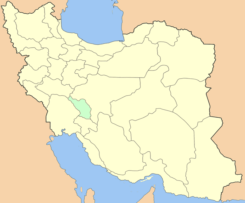 Blank locator map (orthographic projection) of Iran (province of Chahar Mahal o Bakhtiari)